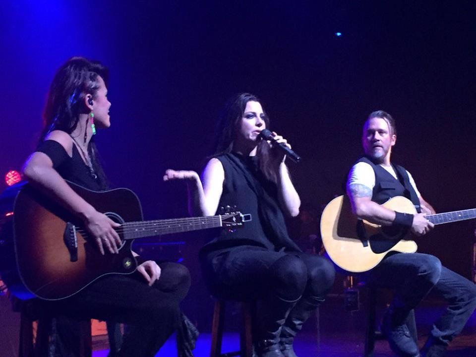 From left to right: Jen Majura, Amy Lee, Troy McClawhorn